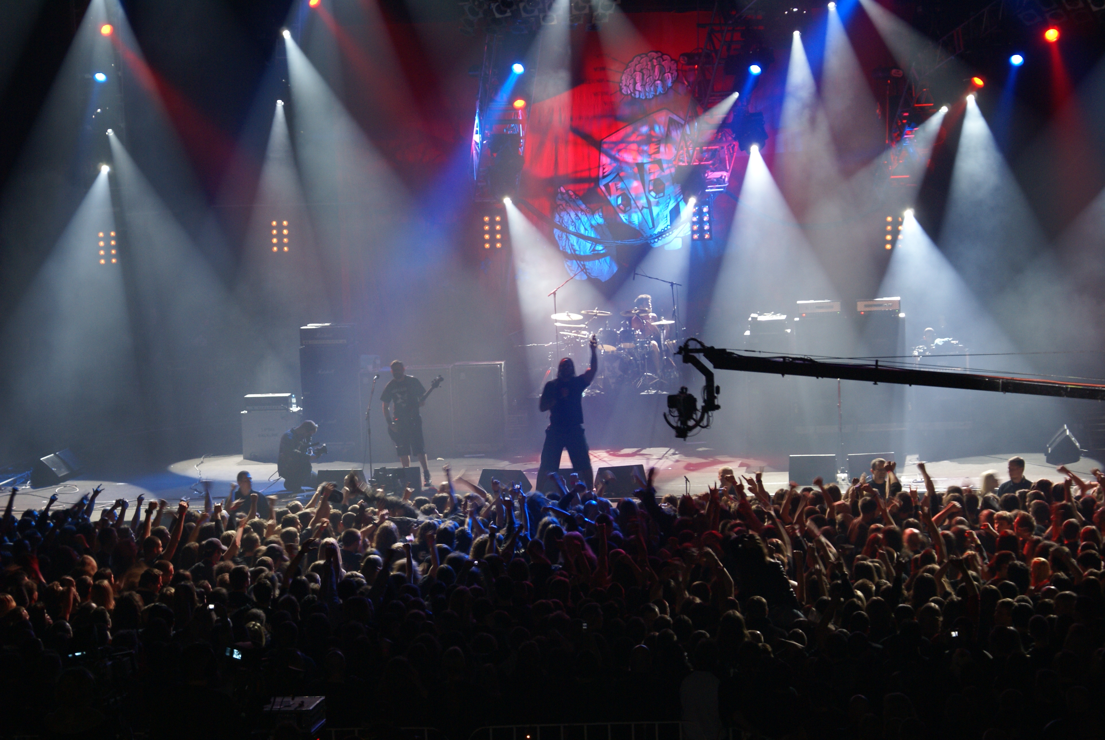 Metal band Sepultura during Metalmania 2007 festival